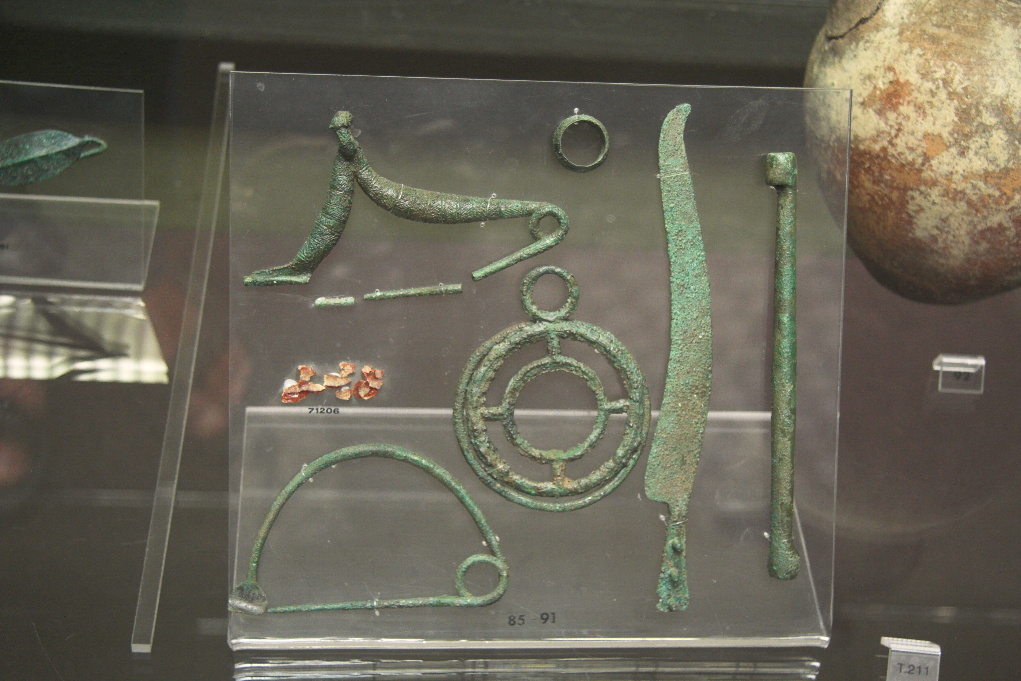 Bronze decorations and knife. Probably Sicilian late Bronez Age, 1050-850 BC. Pantalica II Phase? Archaeological Museum of Syracuse.